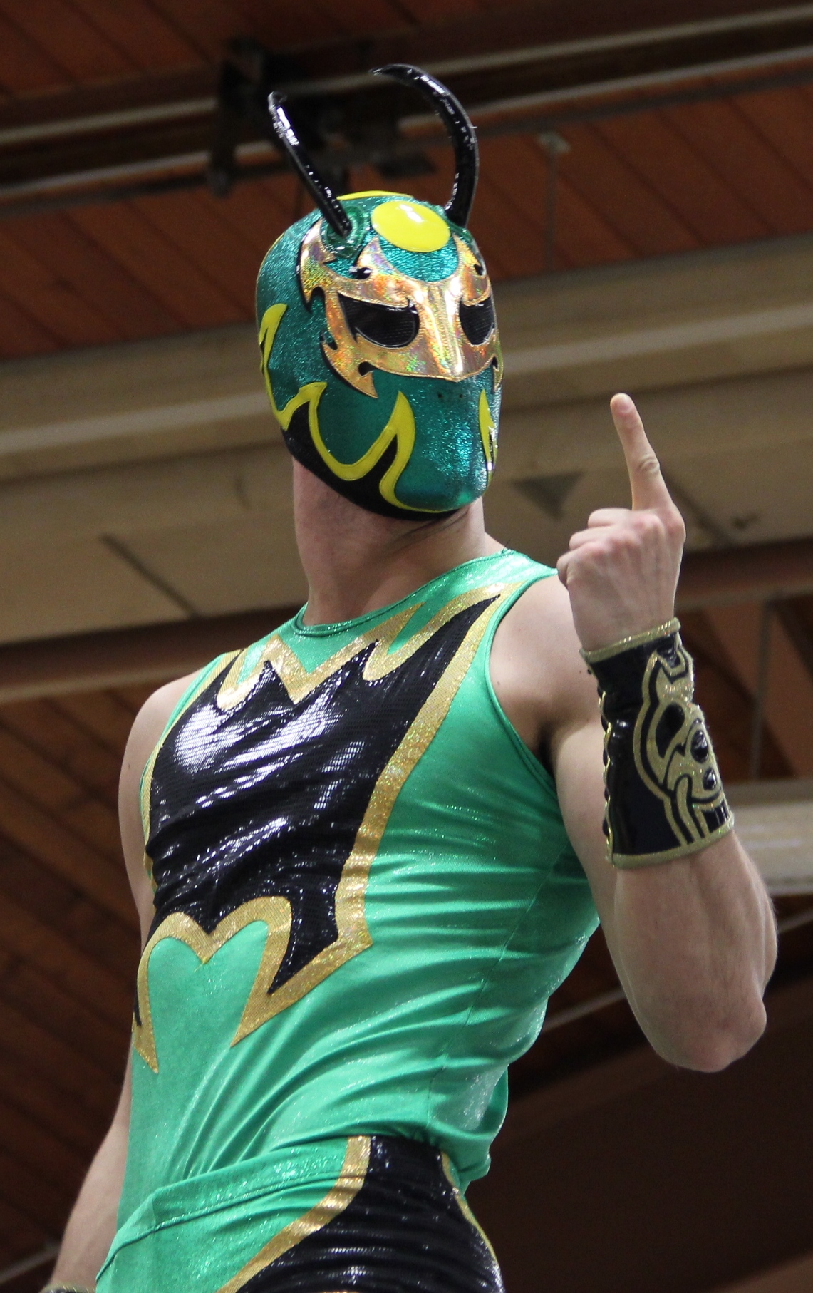 Professional wrestler Green Ant at a Wrestling is Art event.